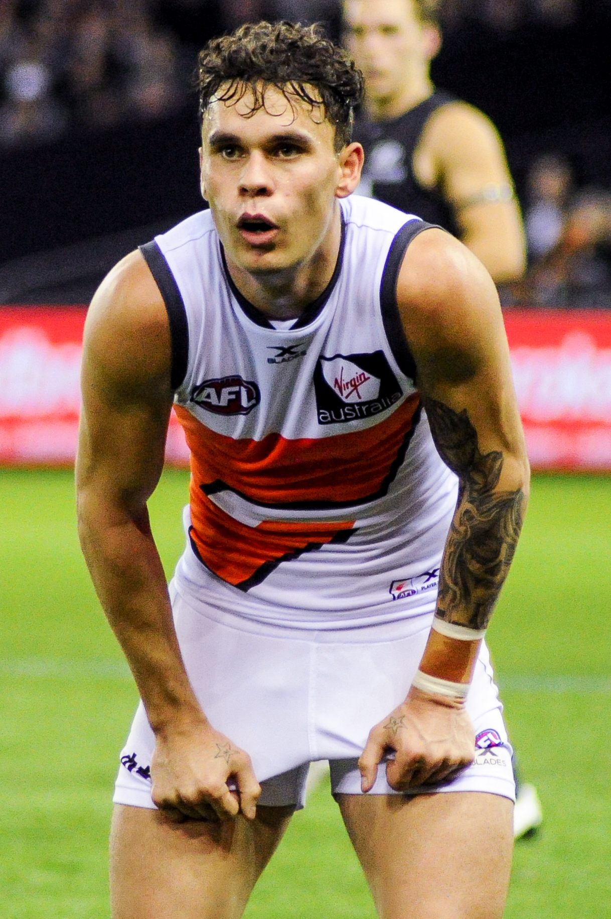 Zac Williams during the AFL round twelve match between Carlton and Greater Western Sydney on 11 June 2017 at Etihad Stadium in Melbourne, Victoria.